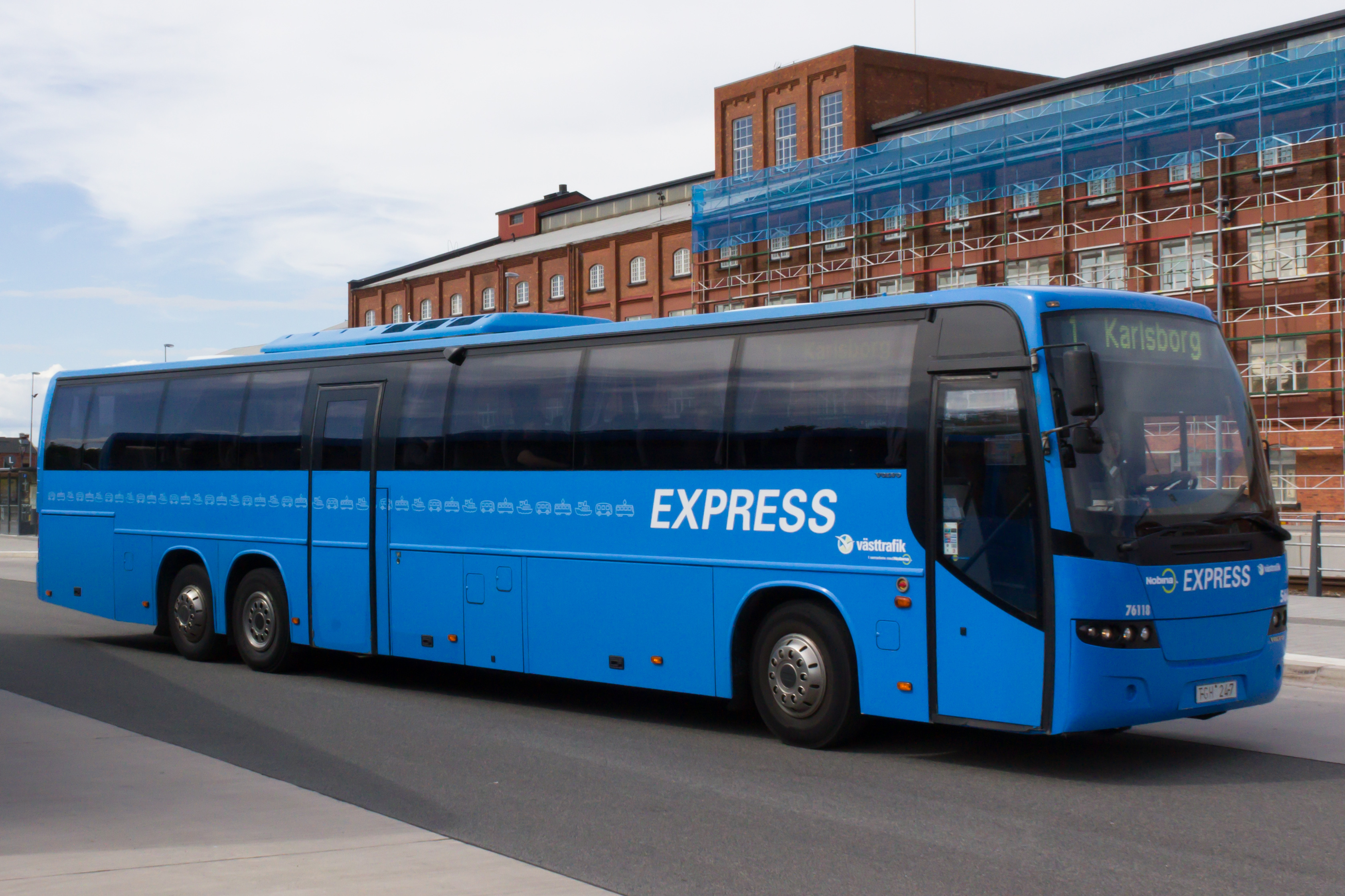 Volvo 9700 6x2 coach (reg. FGH 247 or TGH 247, #76118) with Volvo B12M 6x2 chassis in Sweden. Built 2003. Västtrafik. Nobina Express.